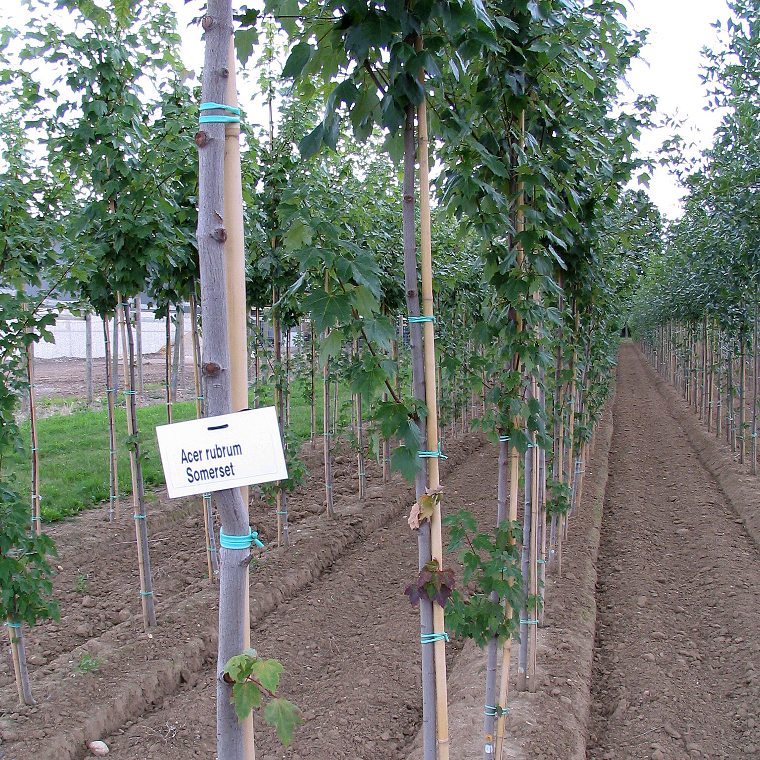 Acer rubrum 'Somerset'